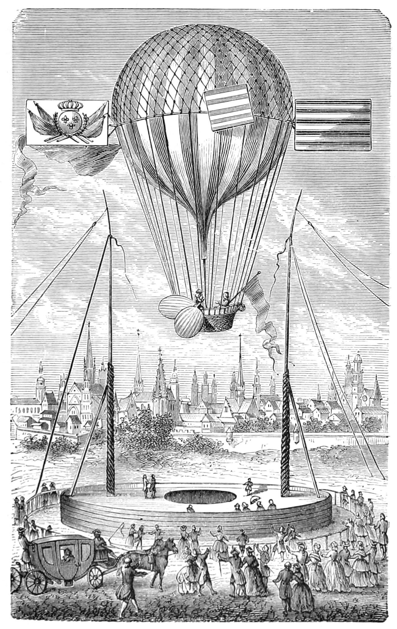 Illustration, "Ascent from Dijon, 1784" from Wonderful Ballon Ascents